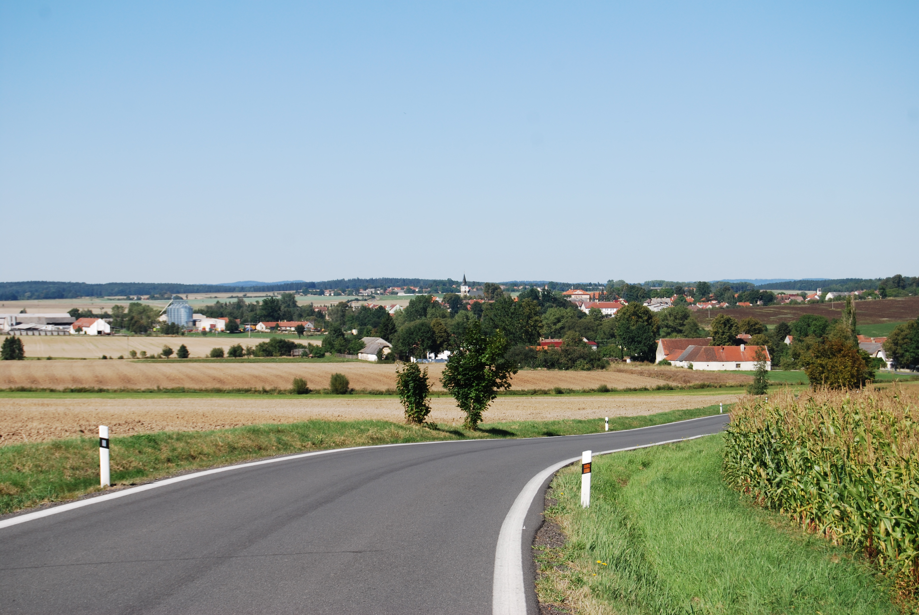 Bernartice village in Písek District, Czech Republic.